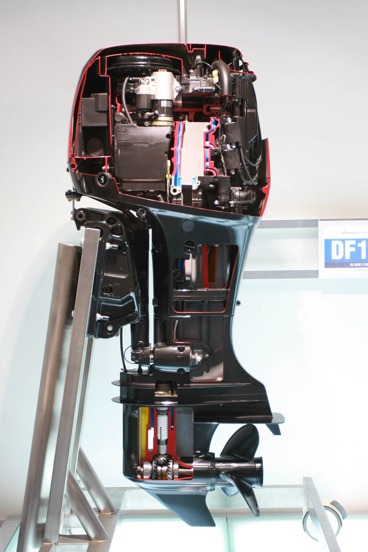 SUZUKI DF115 Cut Model